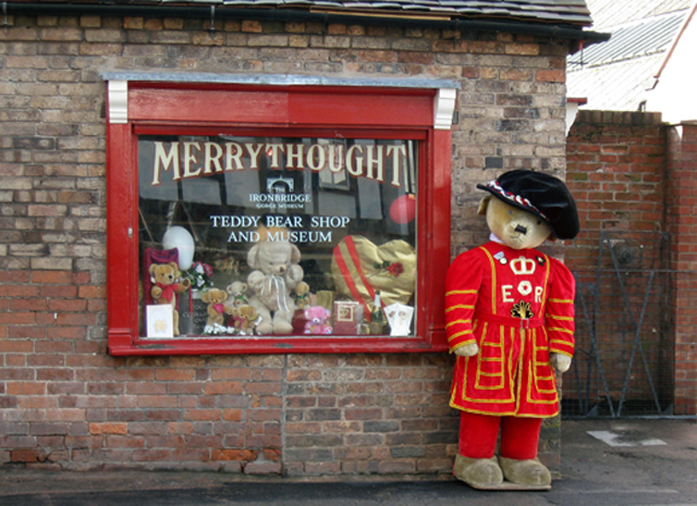 What a smart bear on guard outside the Merrythought Teddy Bear Shop & Museum at Coalbrookdale. Thankfully, at least one part of the Merrythought empire is still functioning.